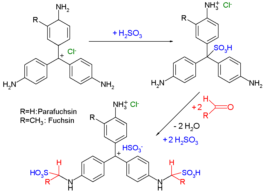 Schiff Reagent Mechanism, as established by NMR spectroskopy in 1980 (stretched).